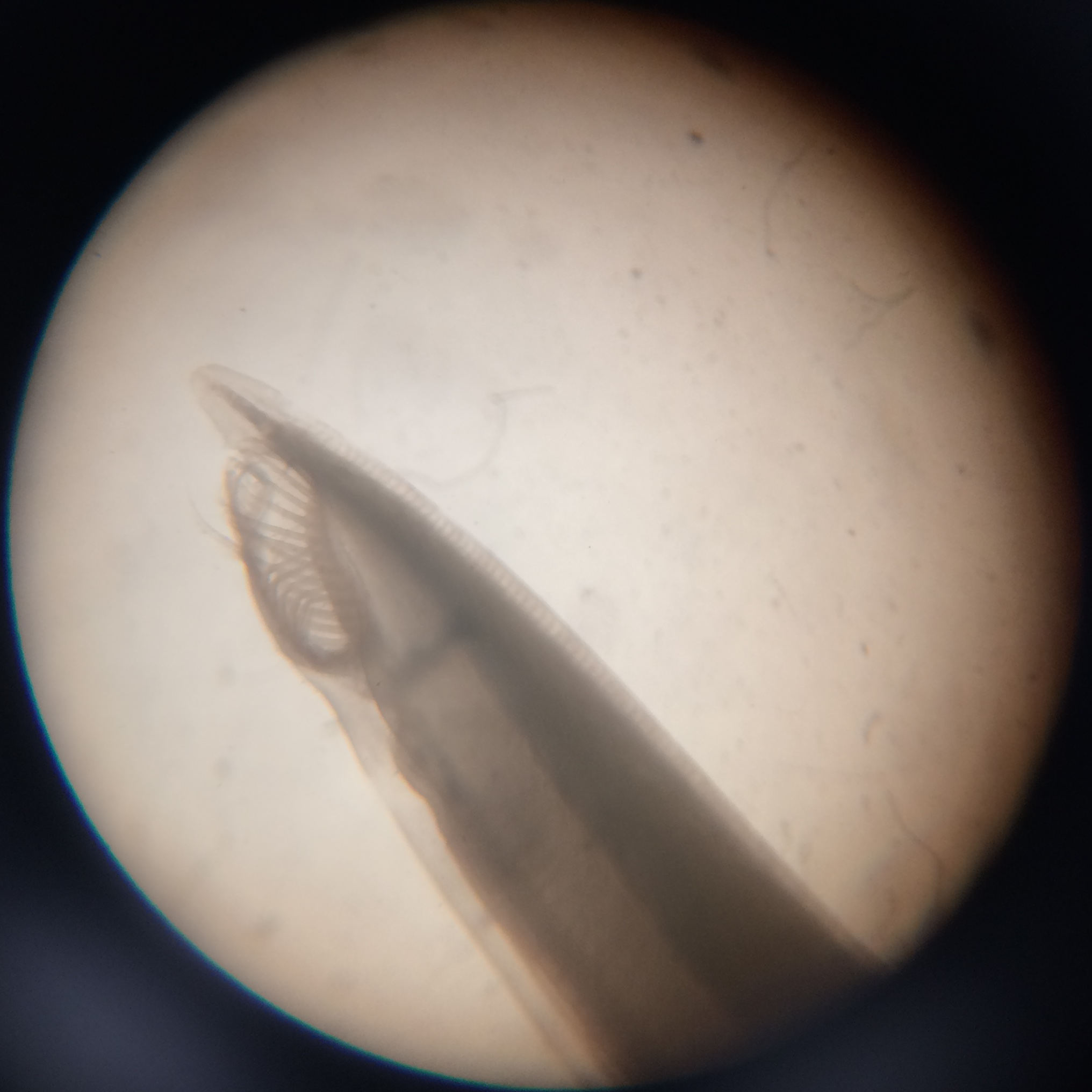 oral hood of cephalochordate under microscope.